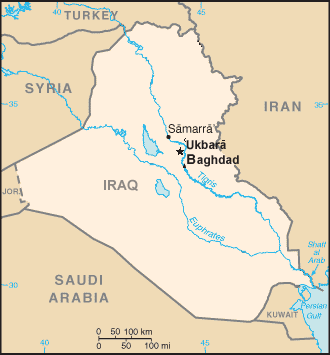 Map showing location of Ukbara, based on image found on Iraq → :Image:Iraq map.png.